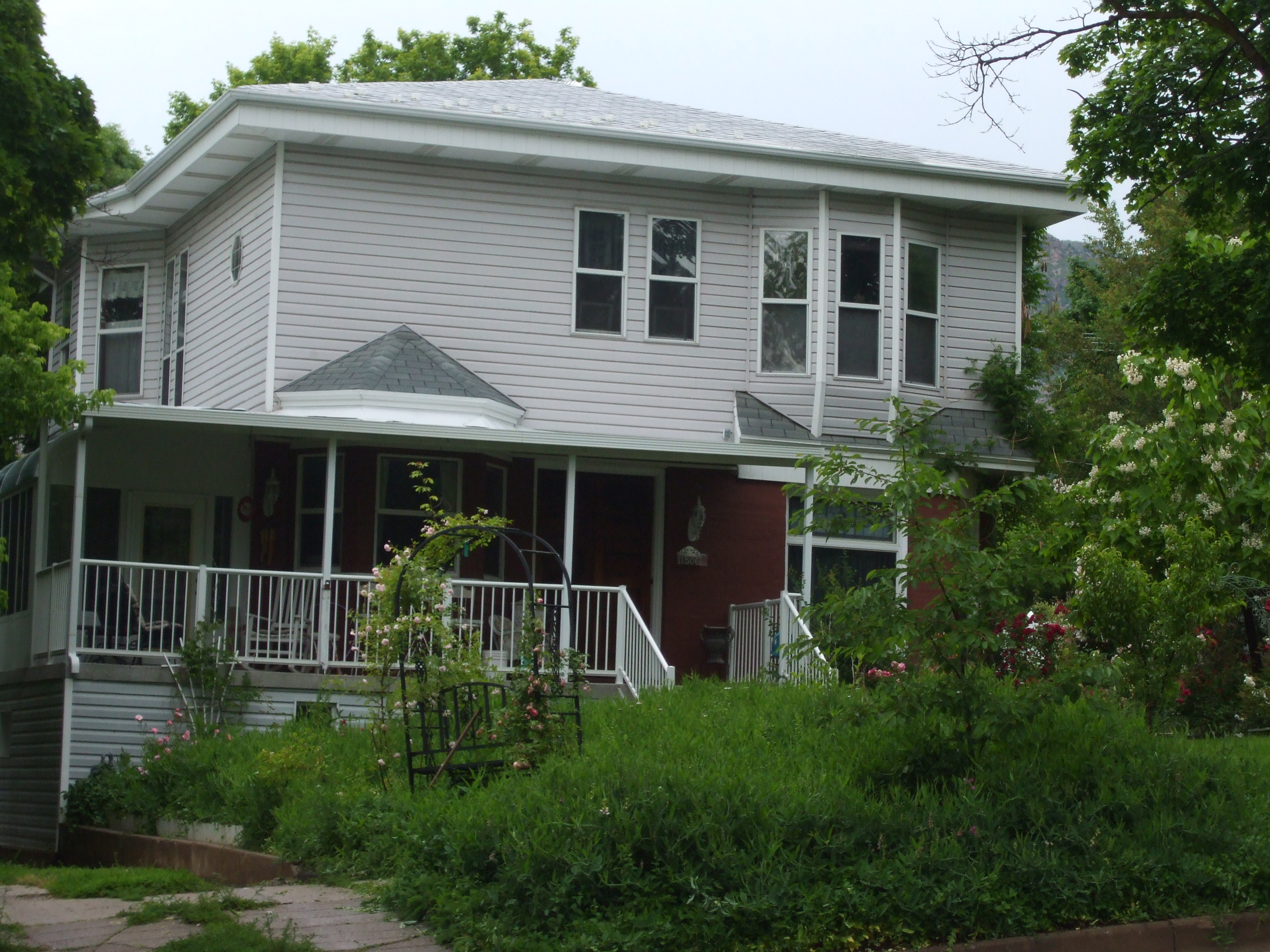 The Augustus B. Patton House, a historic home in Ogden, Utah, United States.